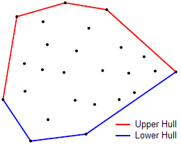 Upper and lower hulls of a set of 2D points. For the illustration of Andrew's monotone chain convex hull algorithm.